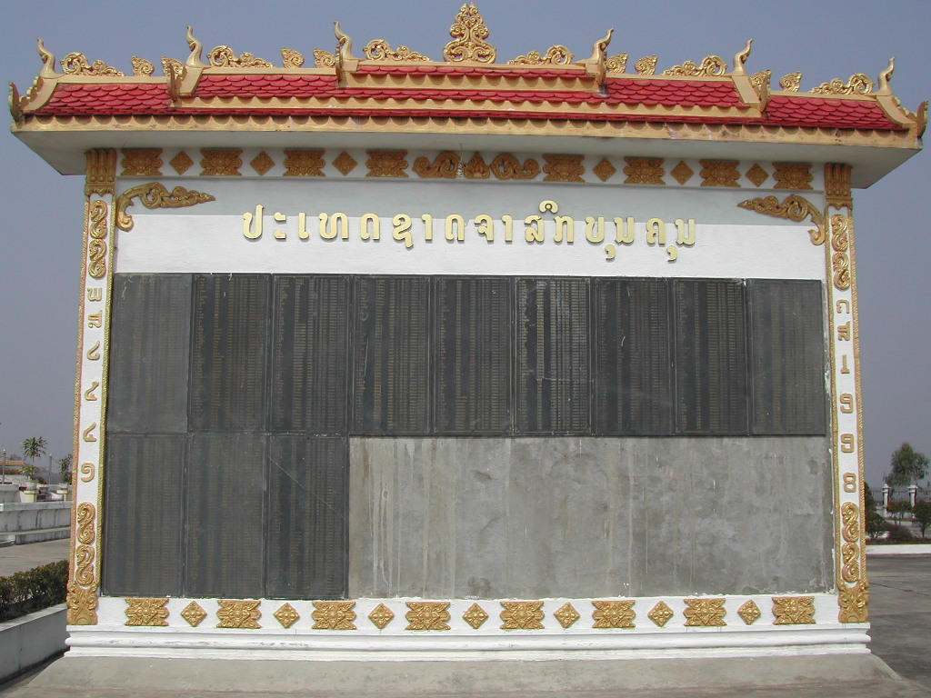 Lao War Memorial in Phonsavan. It shows a list of the Deads.